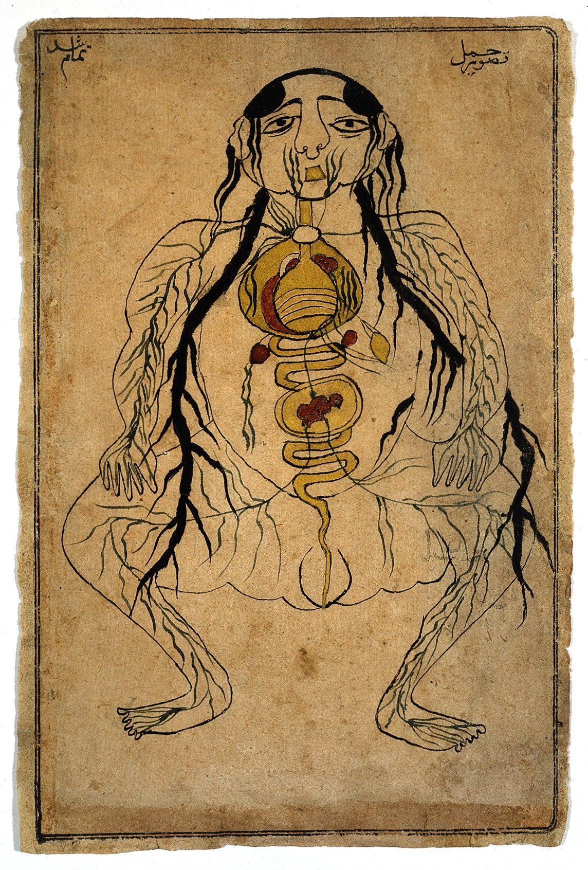 Anatomical illustration showing viscera with fetus in utero. Lettering in Persian above the painting. Iconographic Collections Keywords: Arabic; Iranian; Persian; Pregnant; Anatomy; Art; Fetus; Pregnancy